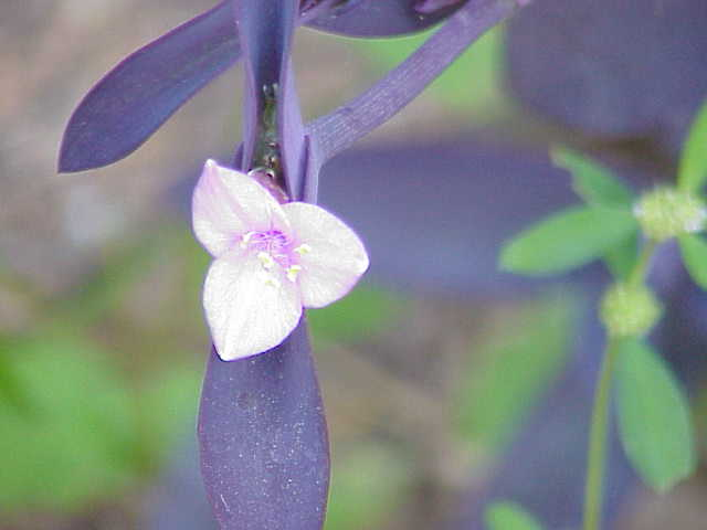 Species: Tradescantia sp. Family: ' Image No. 1